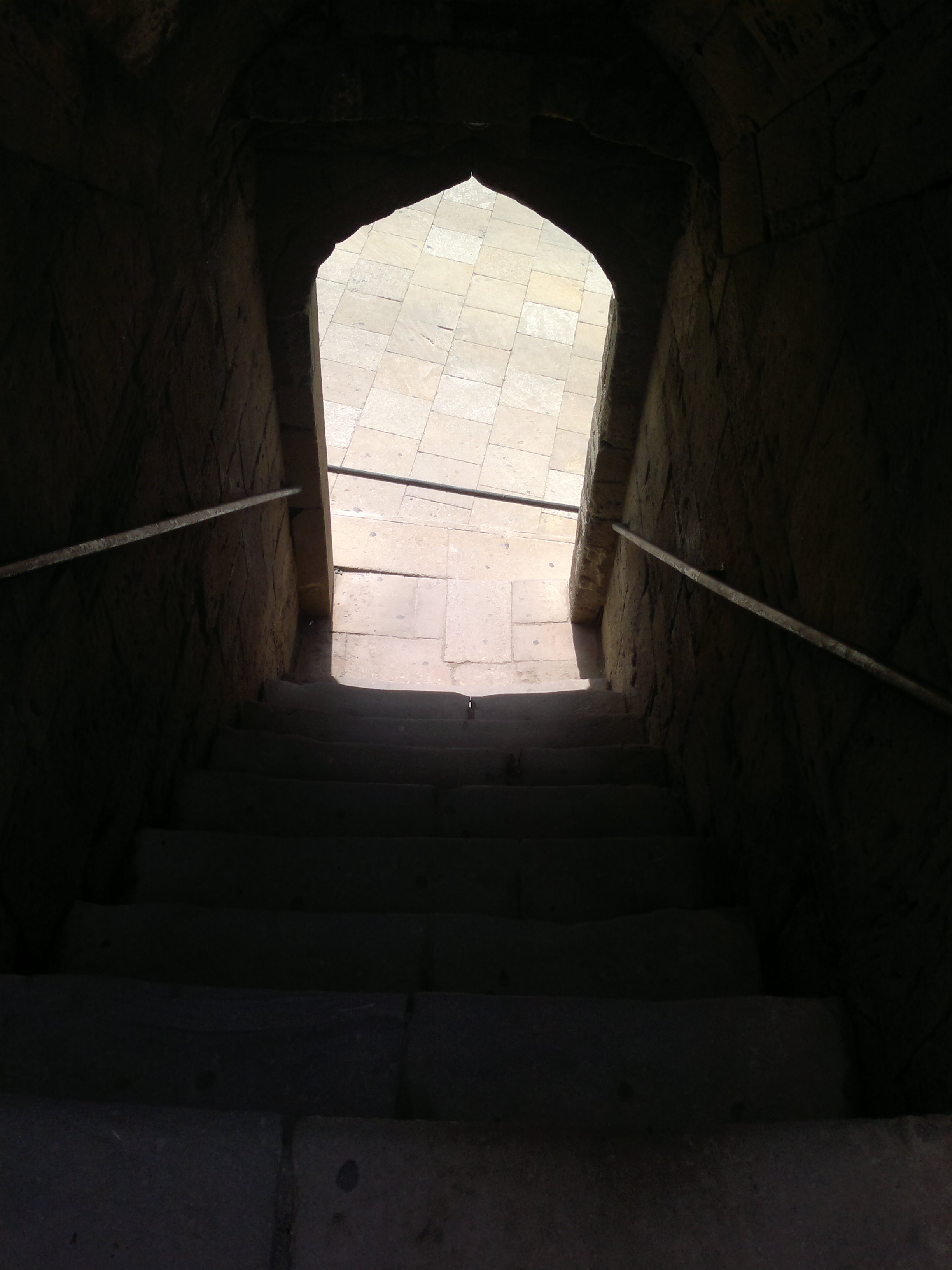 Stairs in the complex of the Palace of the Shirvanshahs